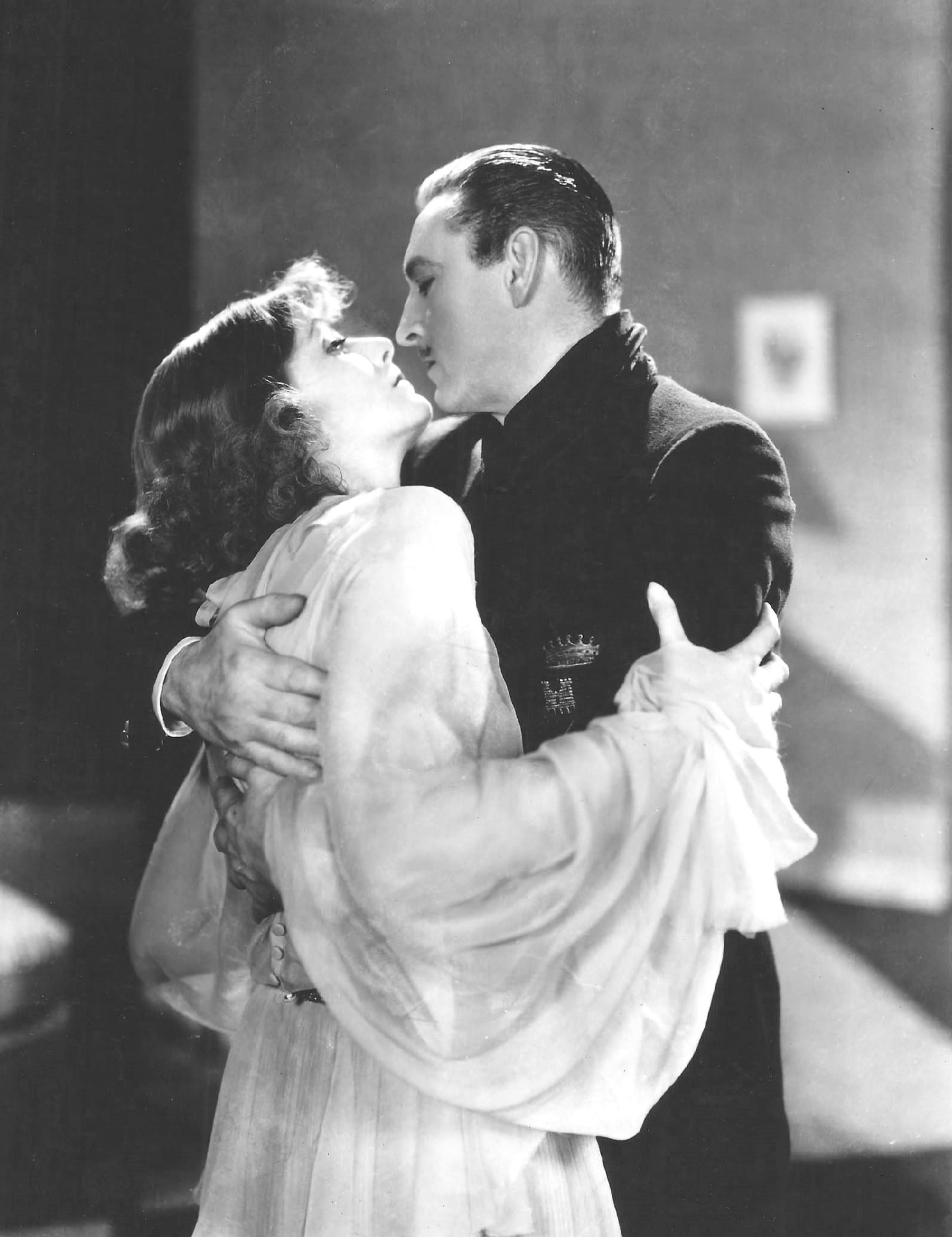 Scene from the 1932 film Grand Hotel picturing Greta Garbo and John Barrymore.